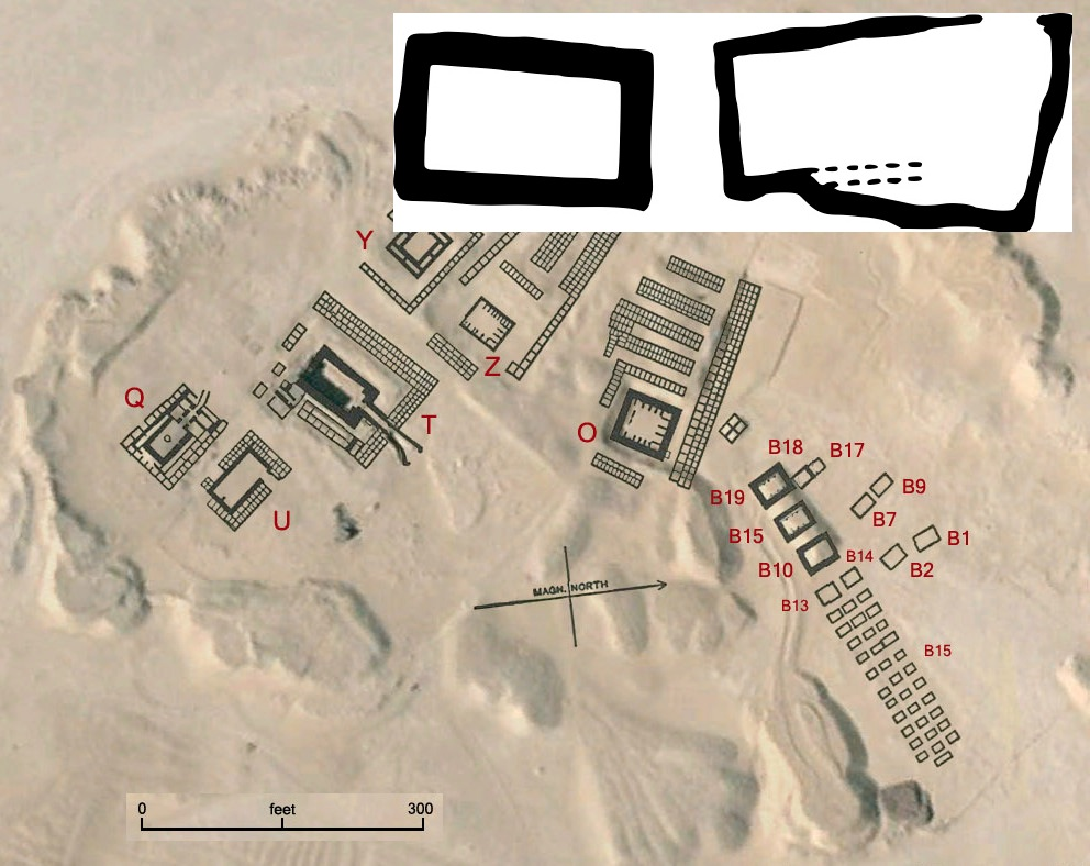 Map of the Umm el Qaab with the tomb of Iry-Hor enlarged